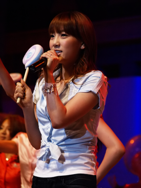 TaeYeon, member and leader of Girls' Generation. Concert in Hanyang University